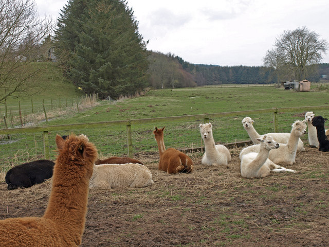 Alpacas at Wood Hall farm